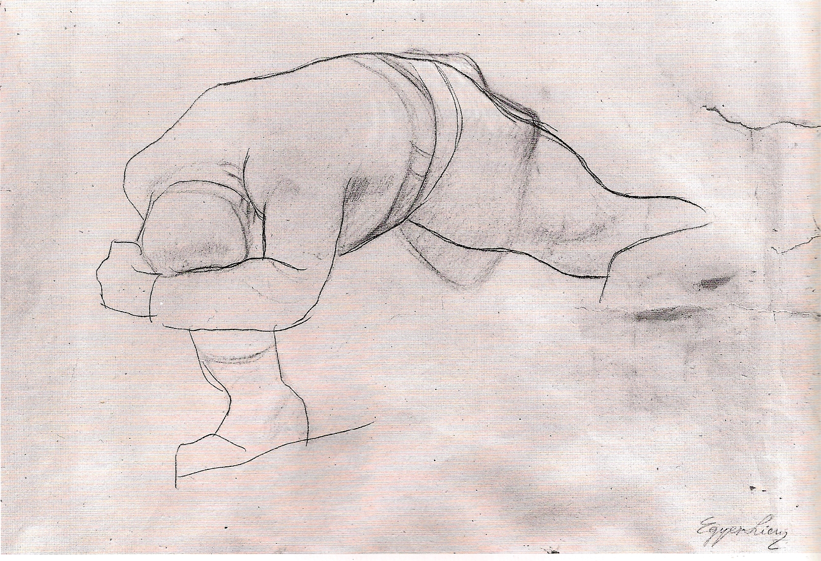 Study to the „Men without names“